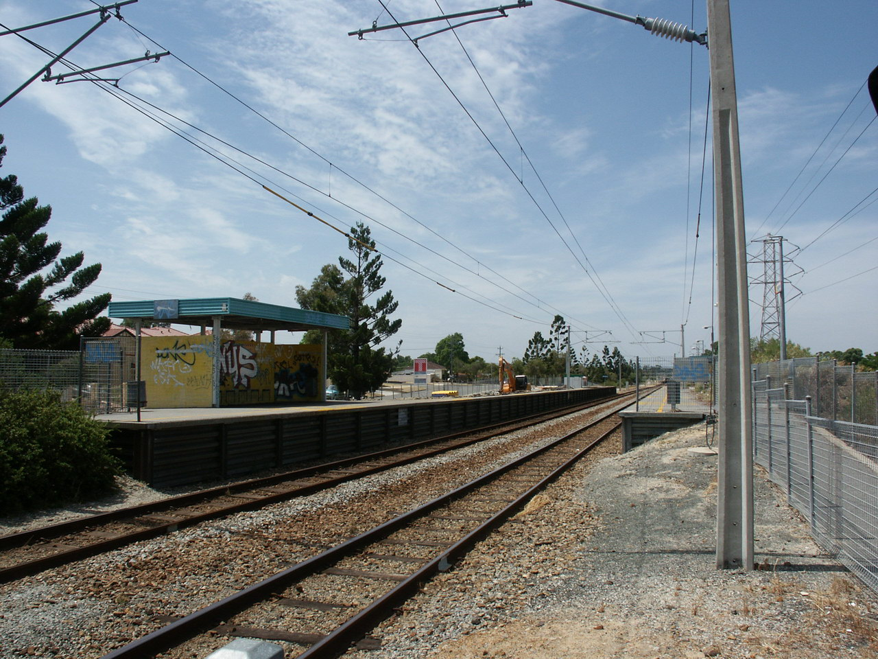 Closed Lathlain railway station, Perth with demolition started.